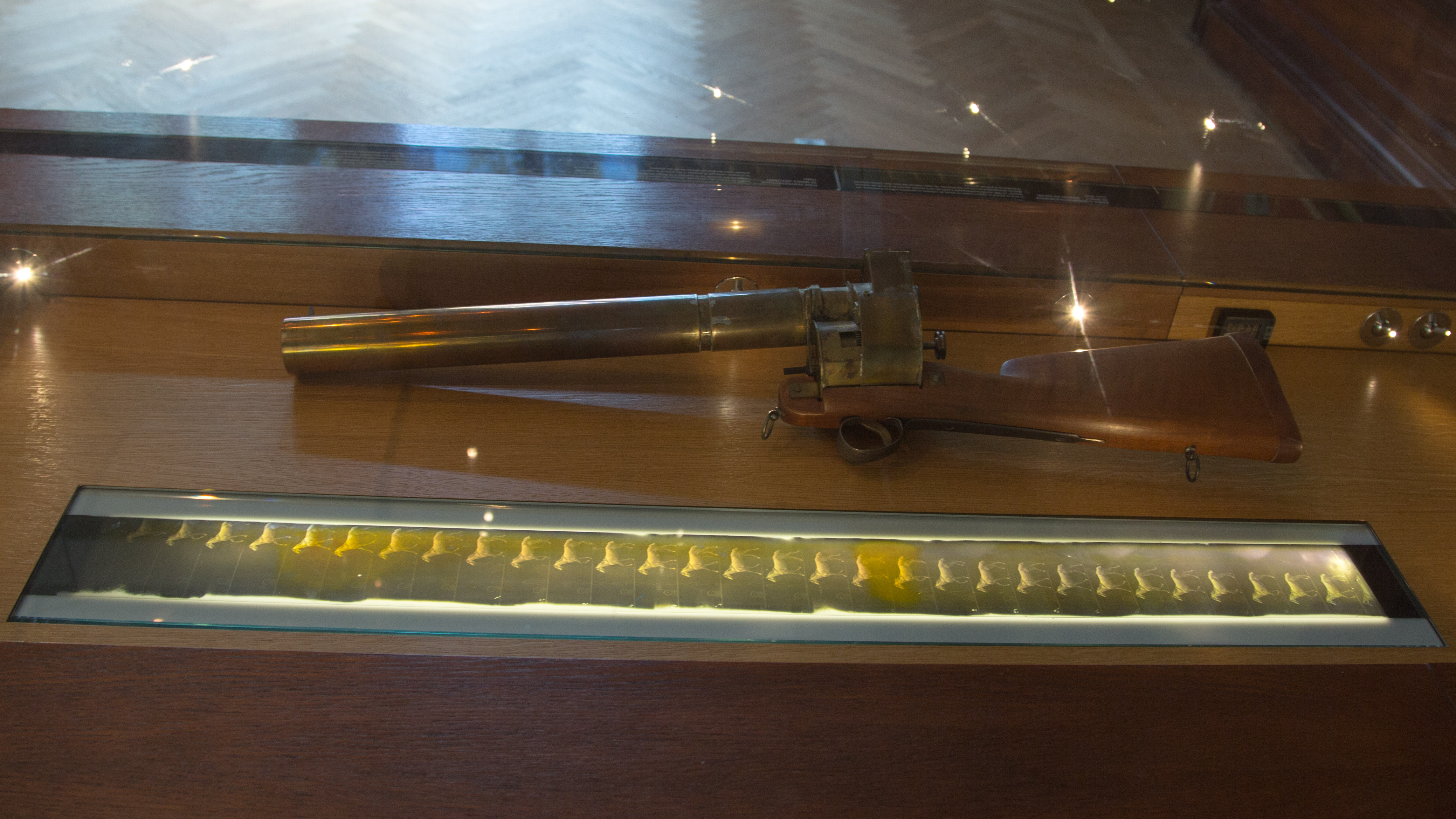 Institut Lumière - Film Gun